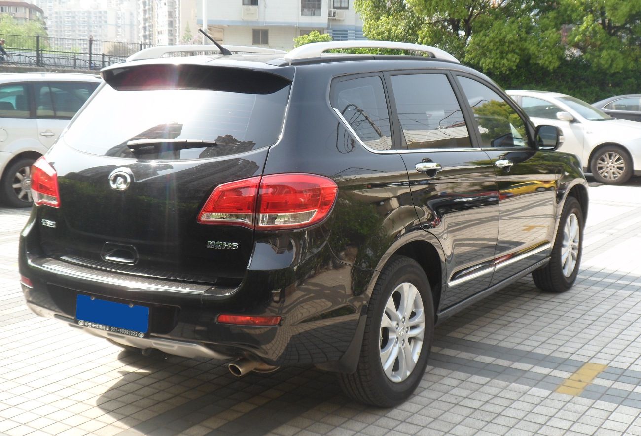 Great Wall Haval H6 photographed in Shanghai, China.